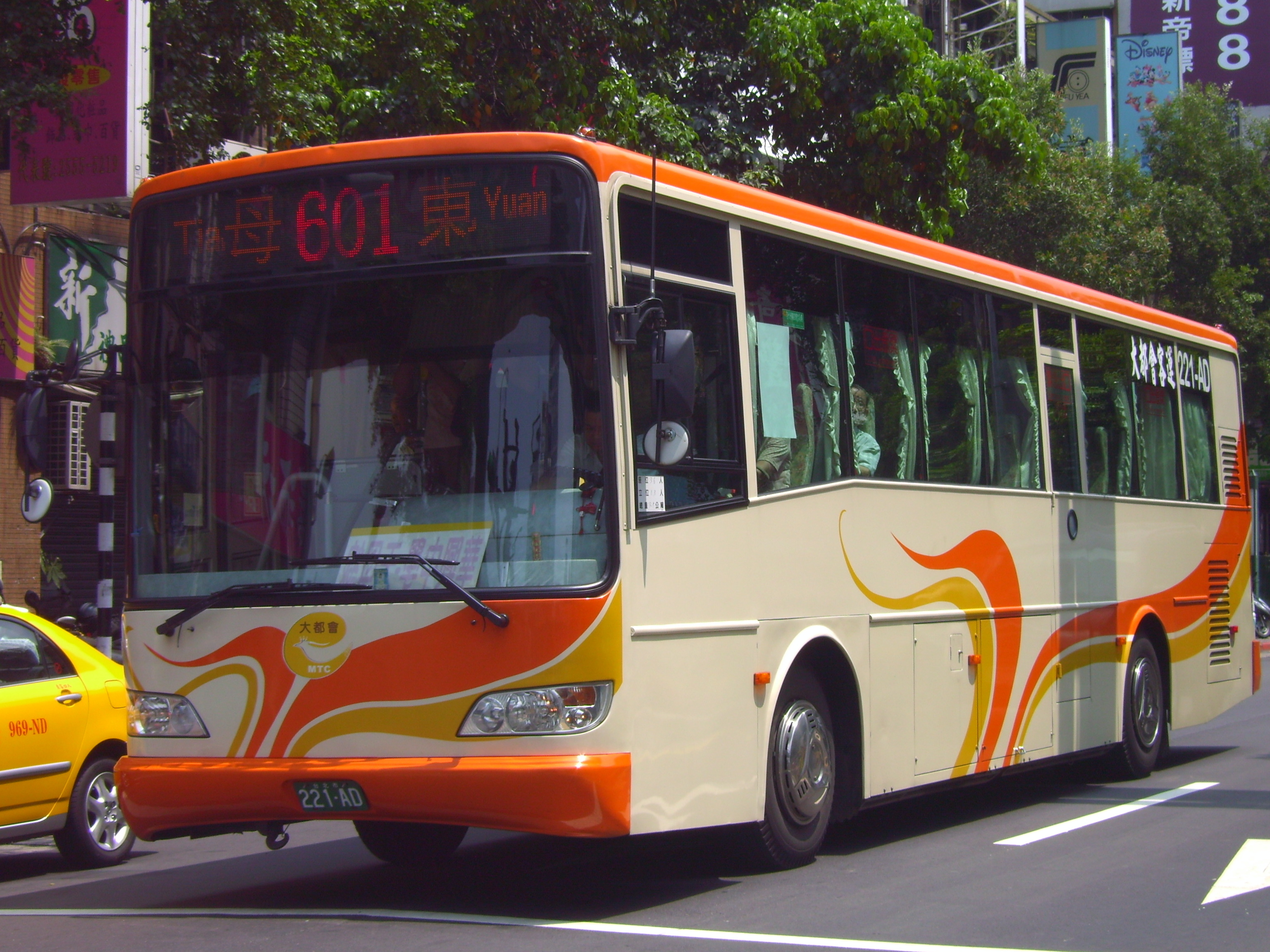 A Isuzu LT134P bus is owned by Metropolitan Transport Corporation in Taiwan.